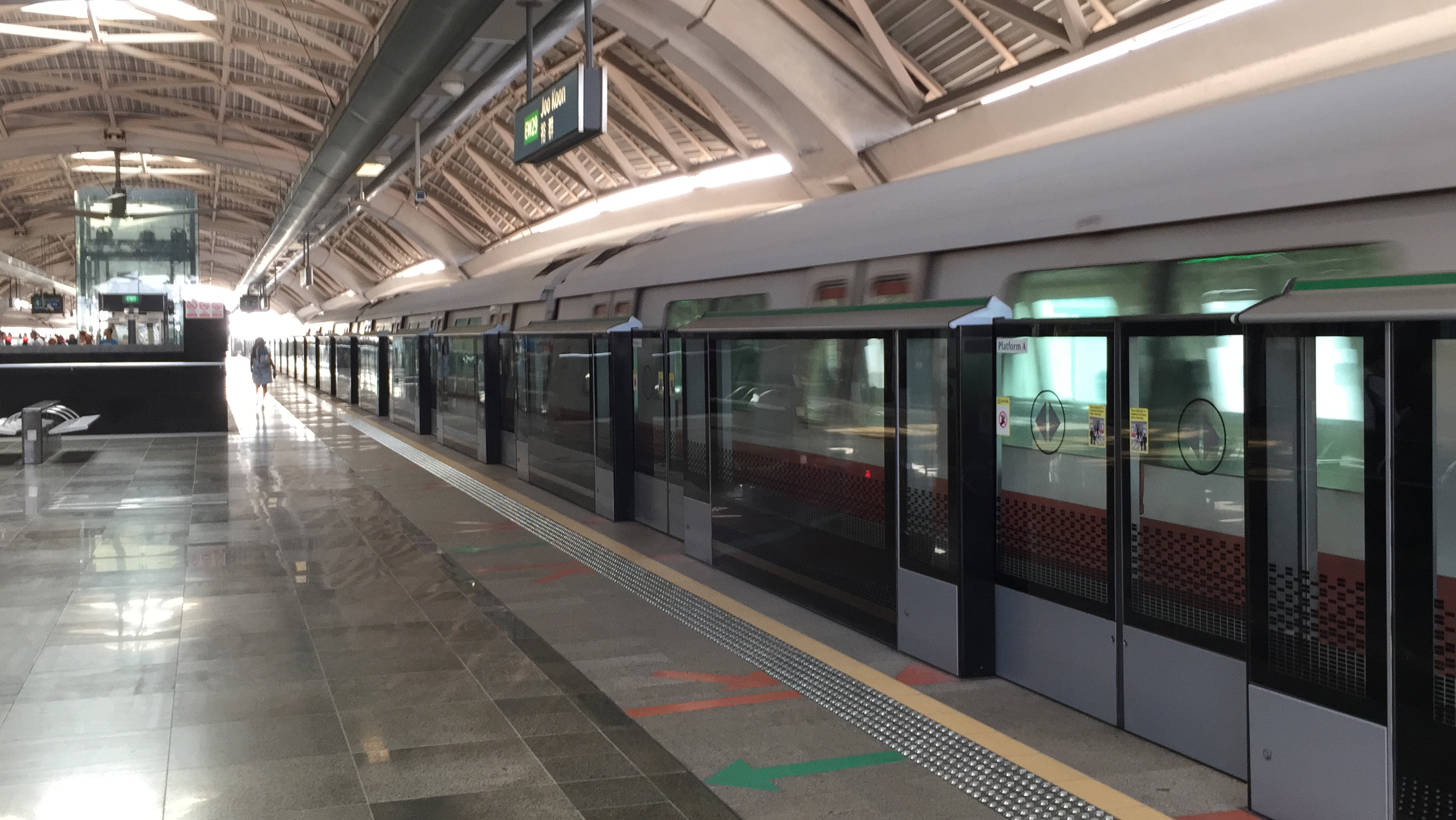 An SMRT Siemens C651 train departing from Platform A of Joo Koon MRT Station, Singapore.